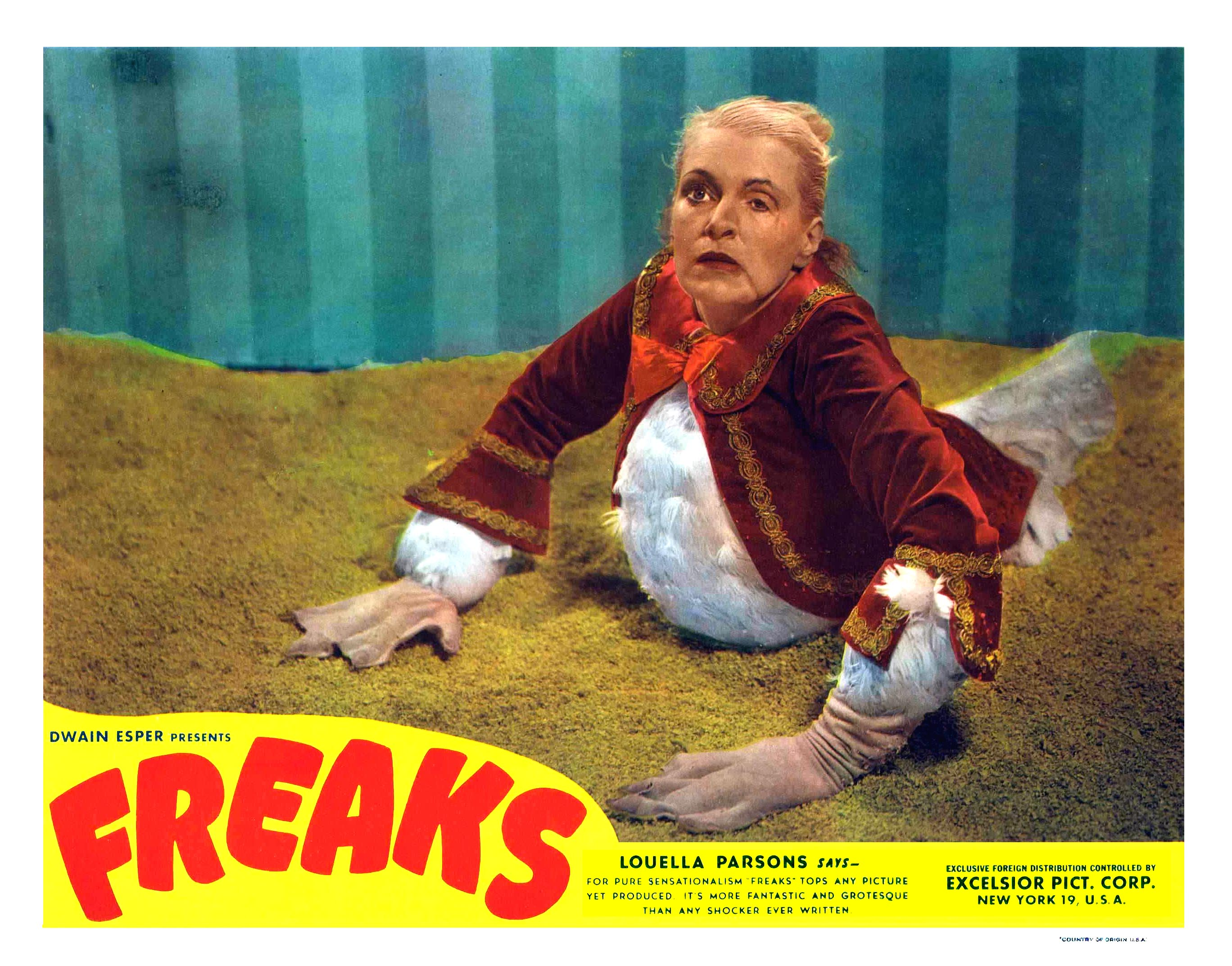 Colored lobby card for the 1932 MGM horror movie, Freaks. Image is assumed to be in the public domain as no copyright is in evidence.